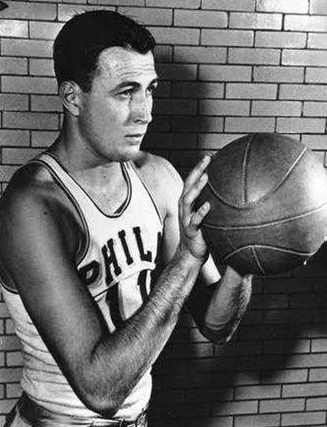 press photo of Paul Arizin playing for the Philadelphia Warriors